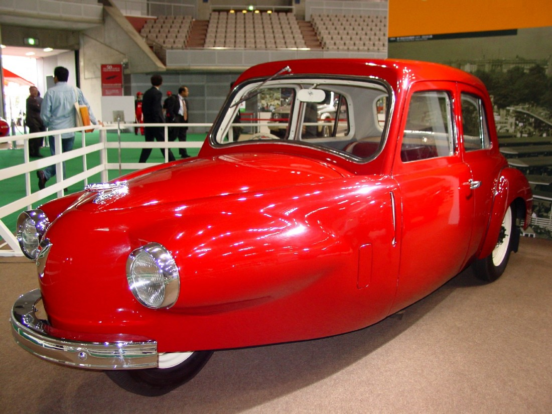 First Daihatsu passenger car, the 3-wheeler Bee had four seats and was powered by a 804cc rear engine. Just 90 were made.